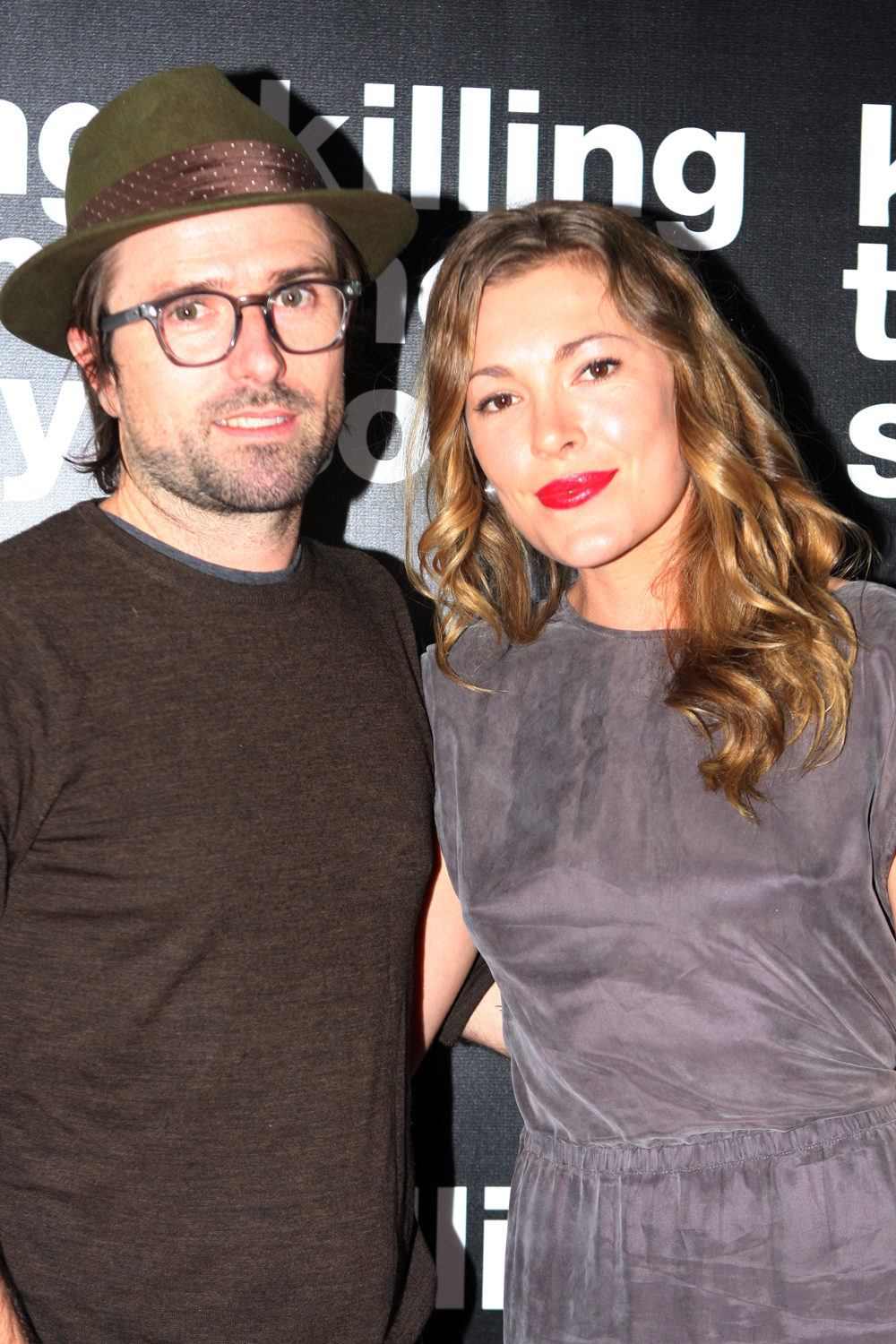 David Michôd & Mirrah Foulkes at Killing Then Softly movie premiere 2012 'Killing Them Softly' enjoyed its Sydney, Australia movie premiere at Dendy Opera Quays this evening. Writer/ director Andrew Dominik (Chopper, The Assassination of Jesse James by the Coward Robert Ford) and star of the film Ben Mendelsohn (The Dark Knight Rises, Animal Kingdom) will attend the Australian premiere of KILLING THEM SOFTLY on Monday 24 September. Other guests attending include Bella Heathcote, Aaron Glenane, Brenna Harding, Elizabeth Blackmore, Felix Willamson, Gillian Armstrong, James Frecheville, John Jarratt Khan Chittenden, Krew Boylan, Leanna Walsman, Mary Coustas, Matthew Nable, Peter Phelps, Sacha Horler, Samara Weaving, Sarah Snook, Sean Keenan and Toby Schmitz. Adapted from George V. Higgins novel and set in New Orleans, Killing Them Softly follows professional enforcer, Jackie Cogan (Pitt), who investigates a heist that occurs during a high stakes, mob-protected poker game. Plot: Jackie Cogan is a professional enforcer who investigates a heist that went down during a mob-protected poker game. Director: Andrew Dominik Writers: Andrew Dominik (screenplay), George V. Higgins (novel) Stars: Brad Pitt, Ray Liotta and Richard Jenkins IN CINEMAS 11 OCTOBER 2012 Websites Killing Them Softly Dendy Cinemas Eva Rinaldi Photography Eva Rinaldi Photography Flickr Music News Australia Nixco